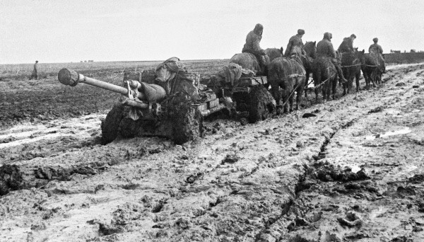 “Gun Crew Moves to New Positions”. A mounted gun crew moving to new positions.